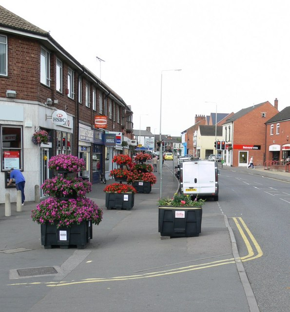 Melton Road, Syston Looking along the main shopping street of Syston.